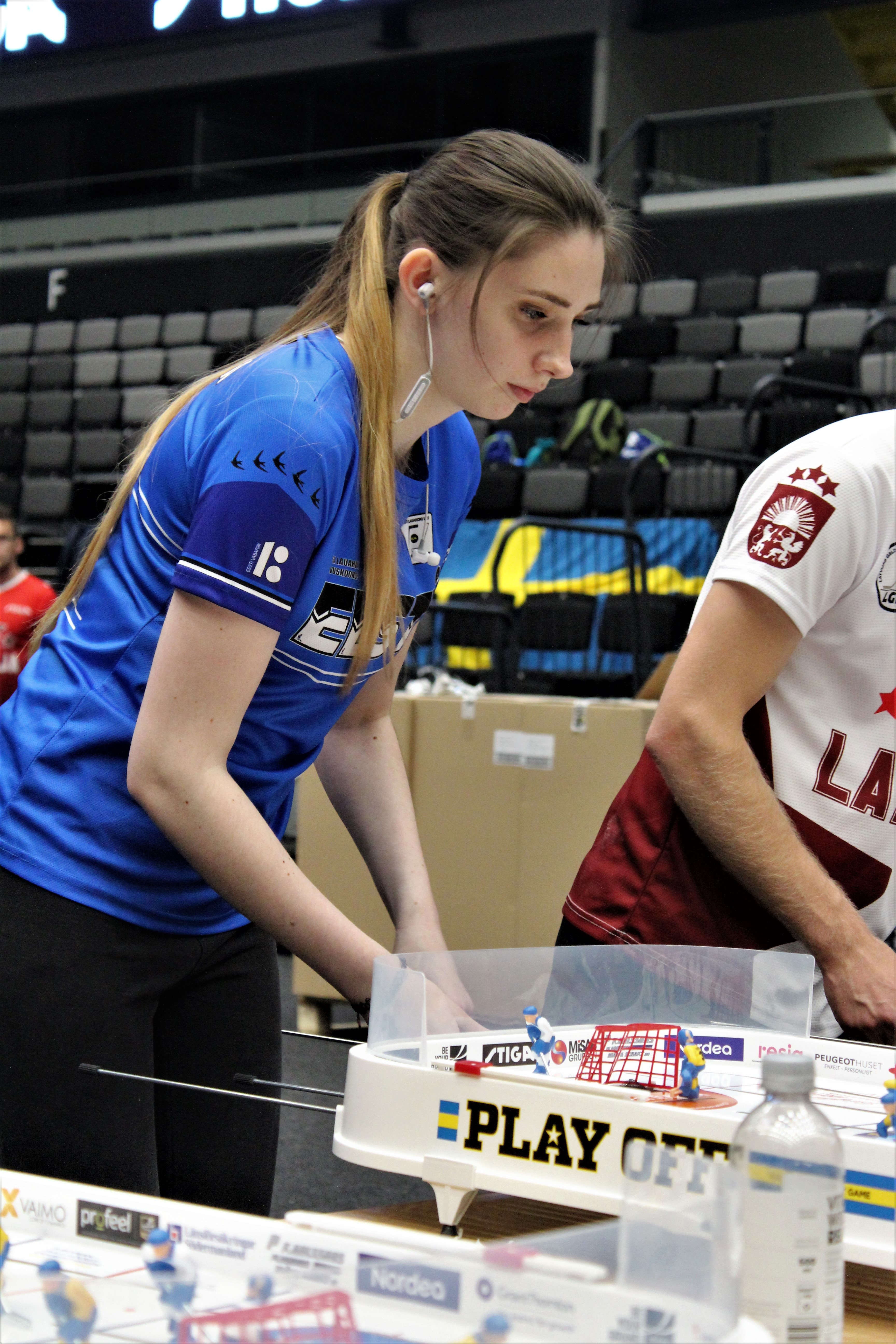 Maria Saveljeva, the world women champion-2019 in table hockey, is playing in European championship at 2018.